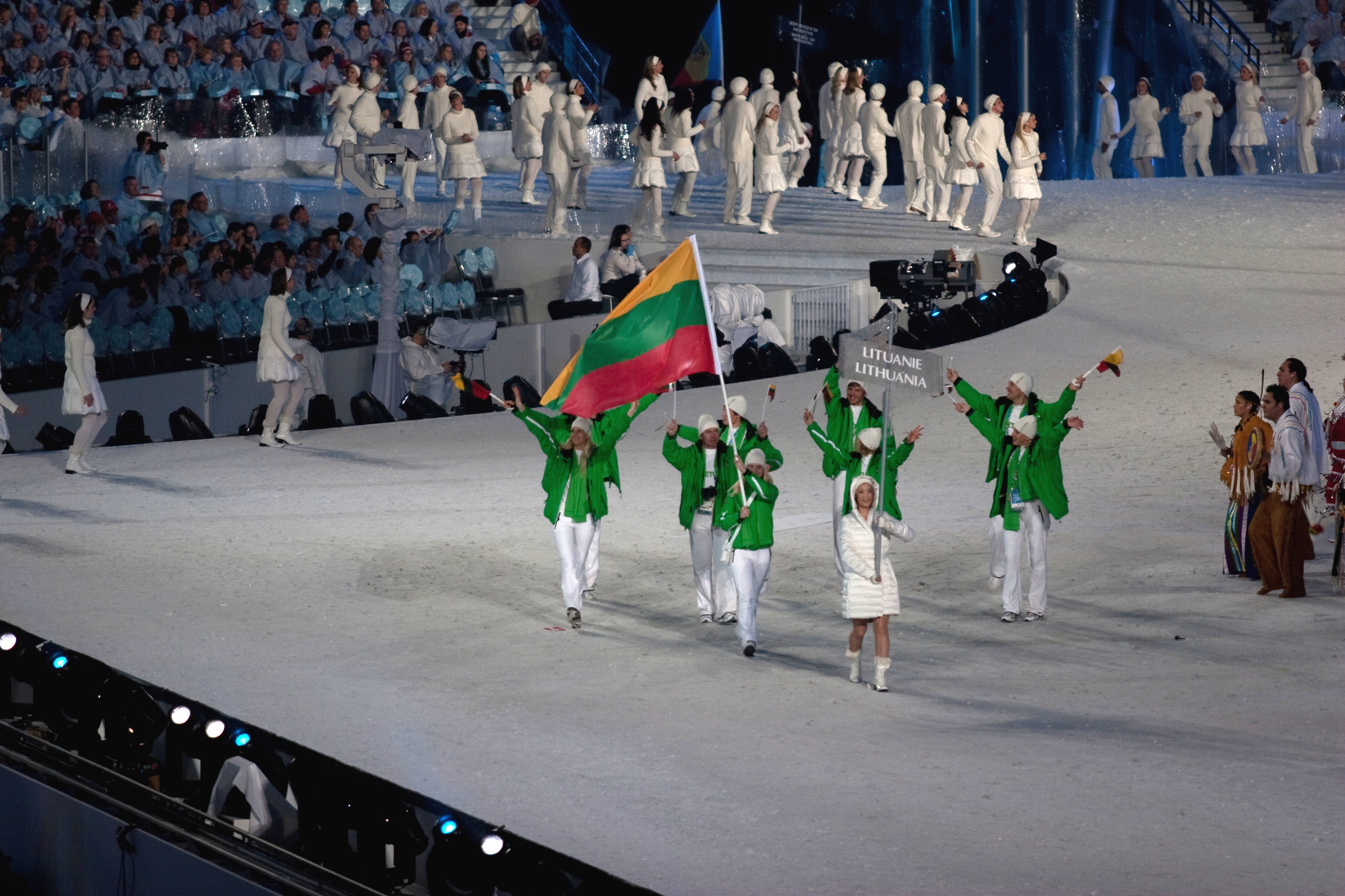 The athletes from Lithuania entering the stadium at the opening ceremonies of the 2010 Winter Olympics